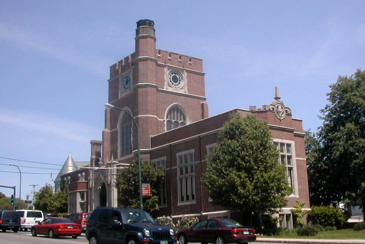 Hunt Memorial Library, Nashua, New Hampshire. Designed by Ralph Adams Cram, it opened in 1903. A new library was completed in 1970, after which the Hunt building housed offices for the Nashua School Department until 1991. Following an extensive restoration, it is used today for public, private and corporate functions. Photograph by Gary McGath, May 30, 2006. Uploaded by the photographer.